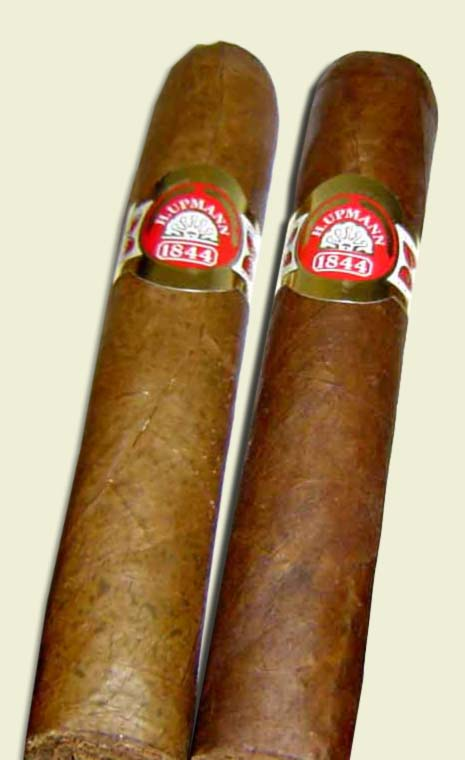 H. Upmann, Robusto Cigars